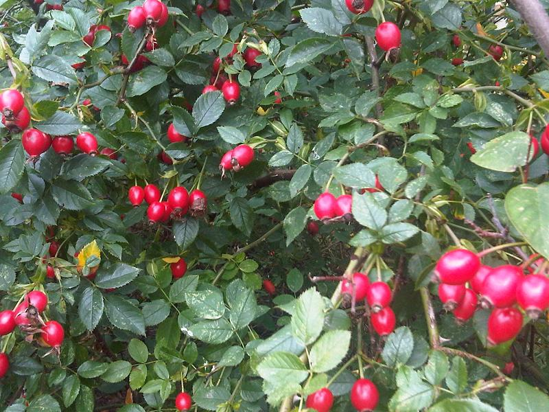 Rose hip, or rose haw (Rosa canina) fruits in WWT London Wetland Centre, England.